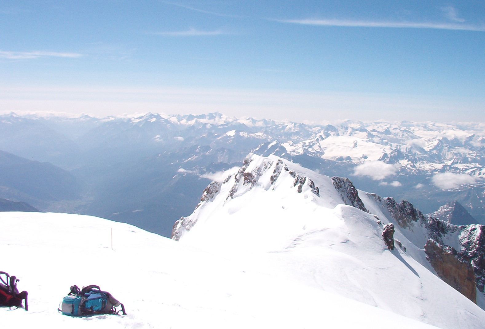 View from the summit of Mont Blanc / Monte Bianco (looking southeast), separated by Col Major the summit of Mont Blanc de Courmayeur.